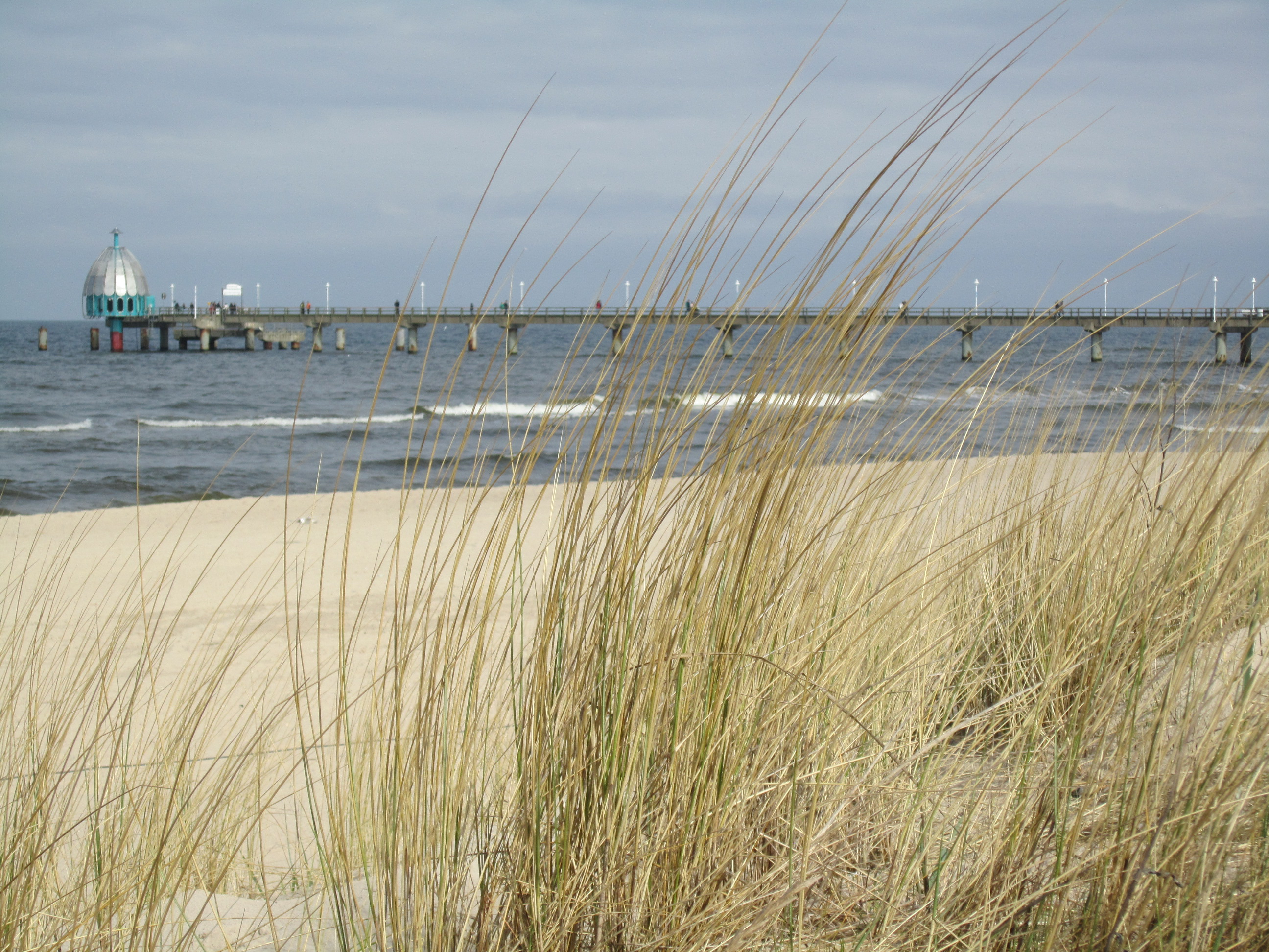 Zinnowitz Pier ("Vinetabruecke") and Baltic Sea beach